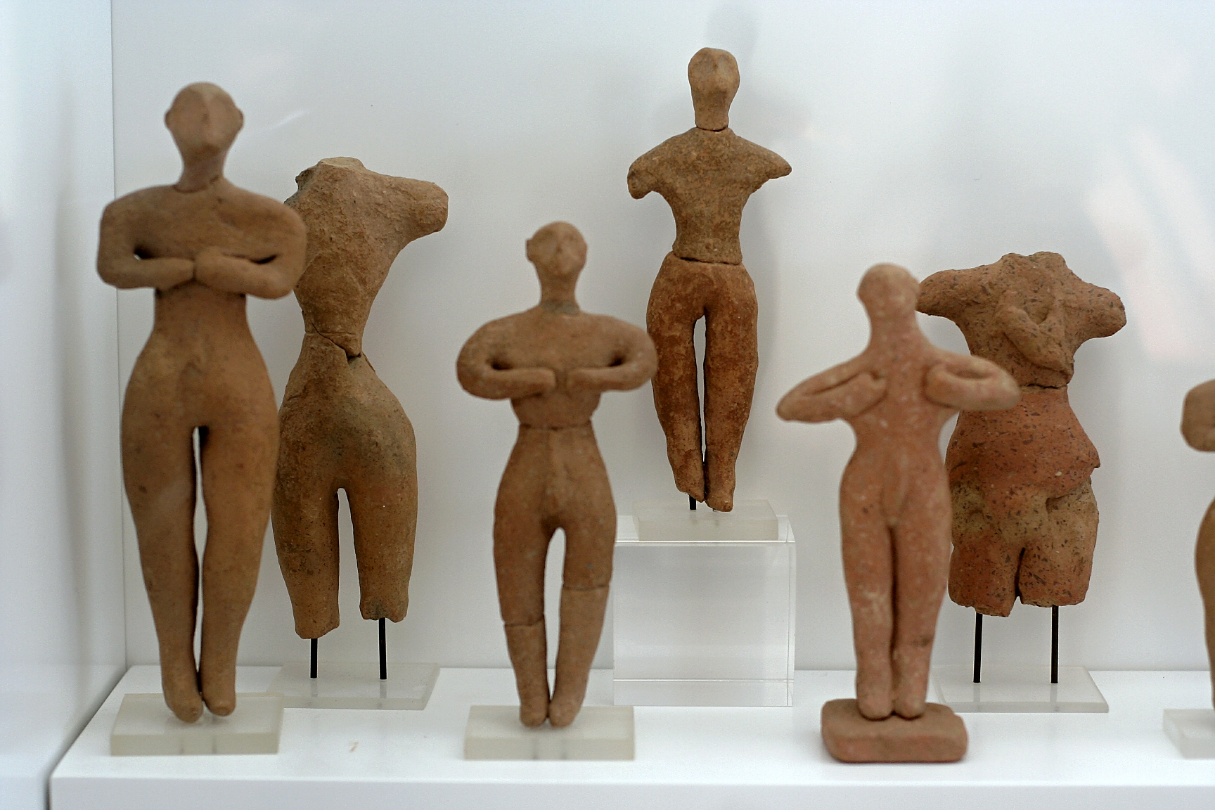 Male figurines, ithyphallics, with hands on chest, clay. Shrine on top Petsophas on the the most eastern Crete, Middle Minoan periode, 2000-1425 BC. Archaeological Museum of Agios Nikolaos.